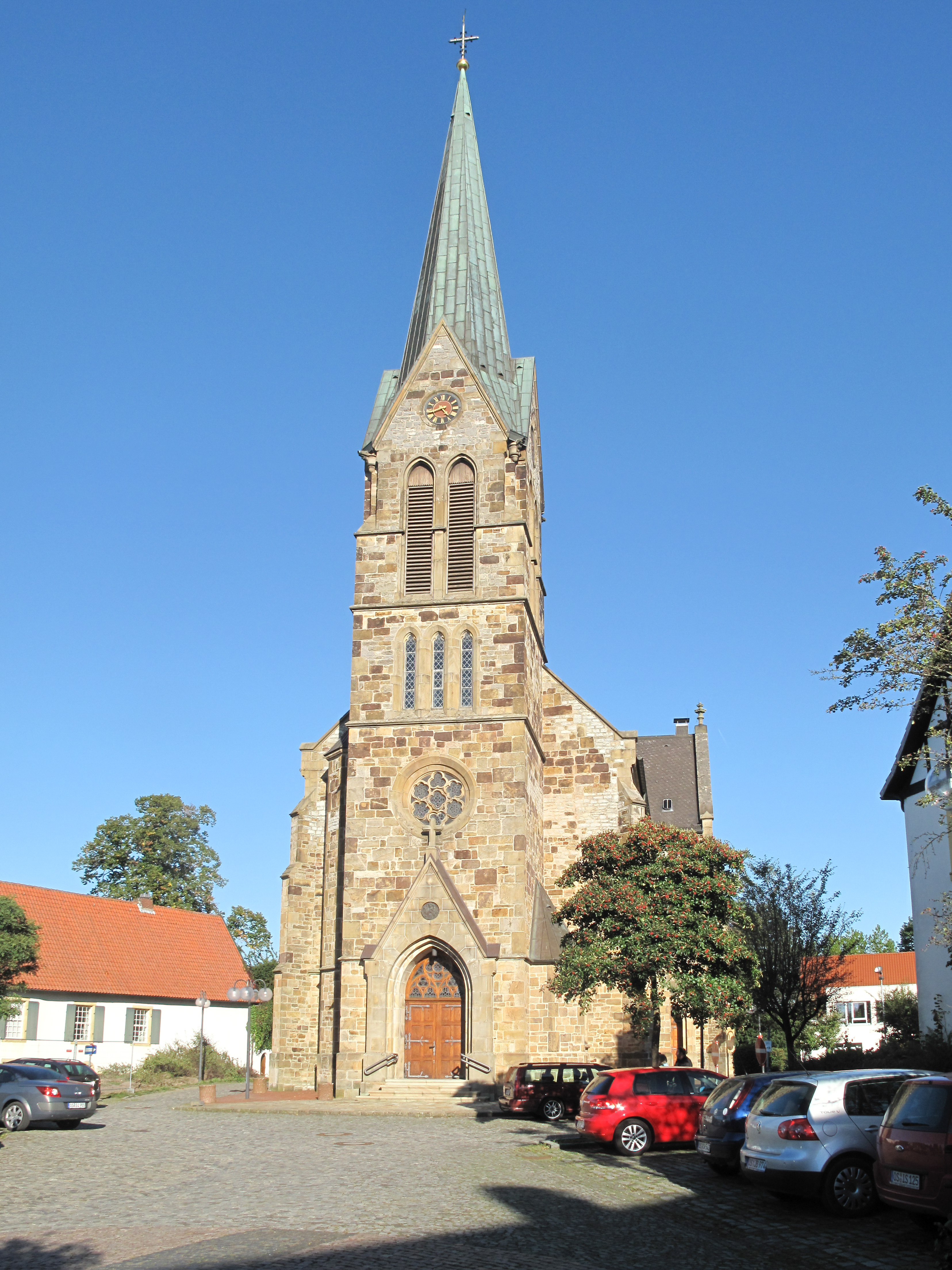 Bissendorf, church: die Sankt Dionysius-Kirche